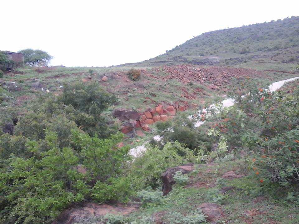 village